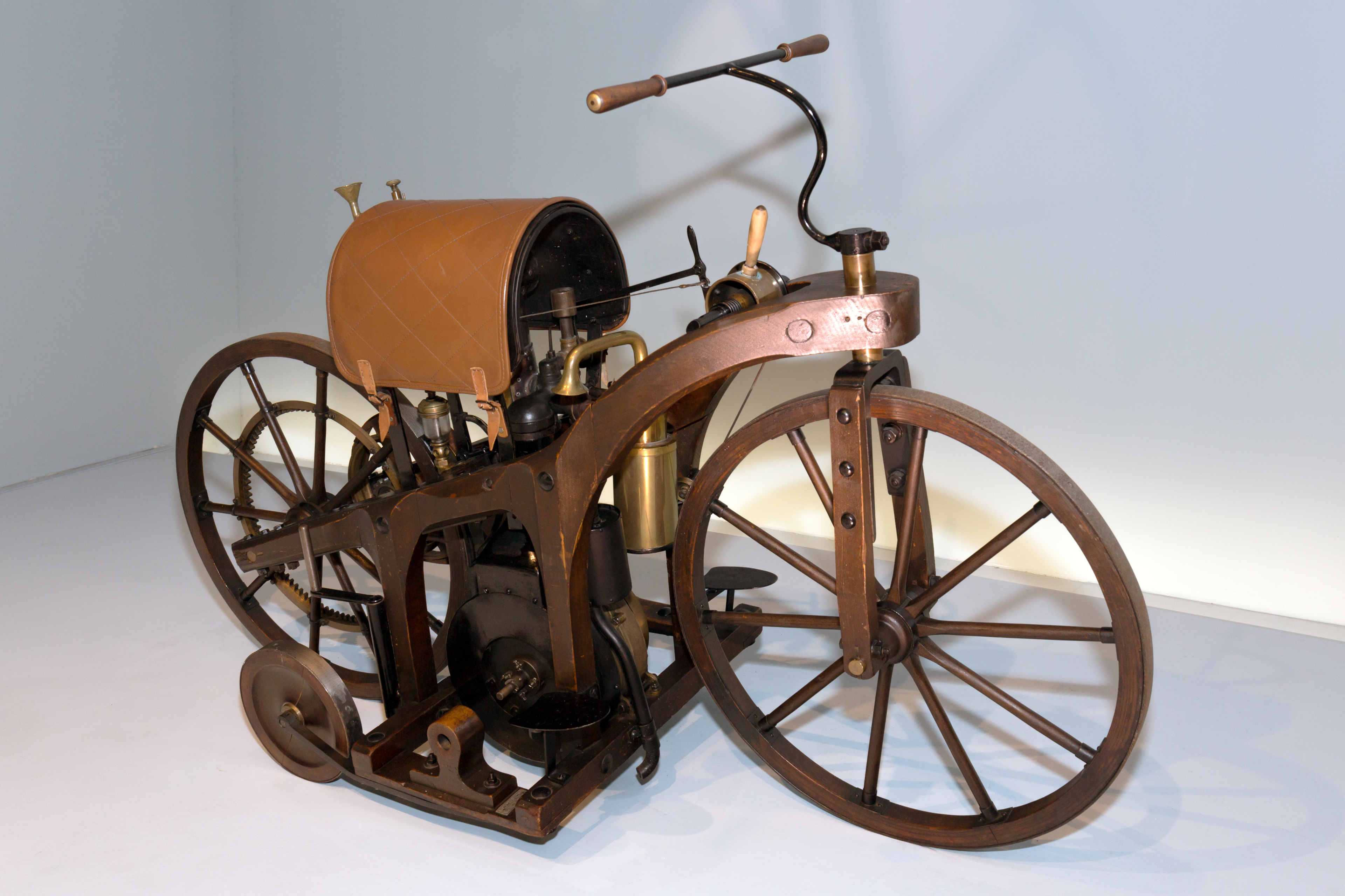 1885 Daimler Reitwagen